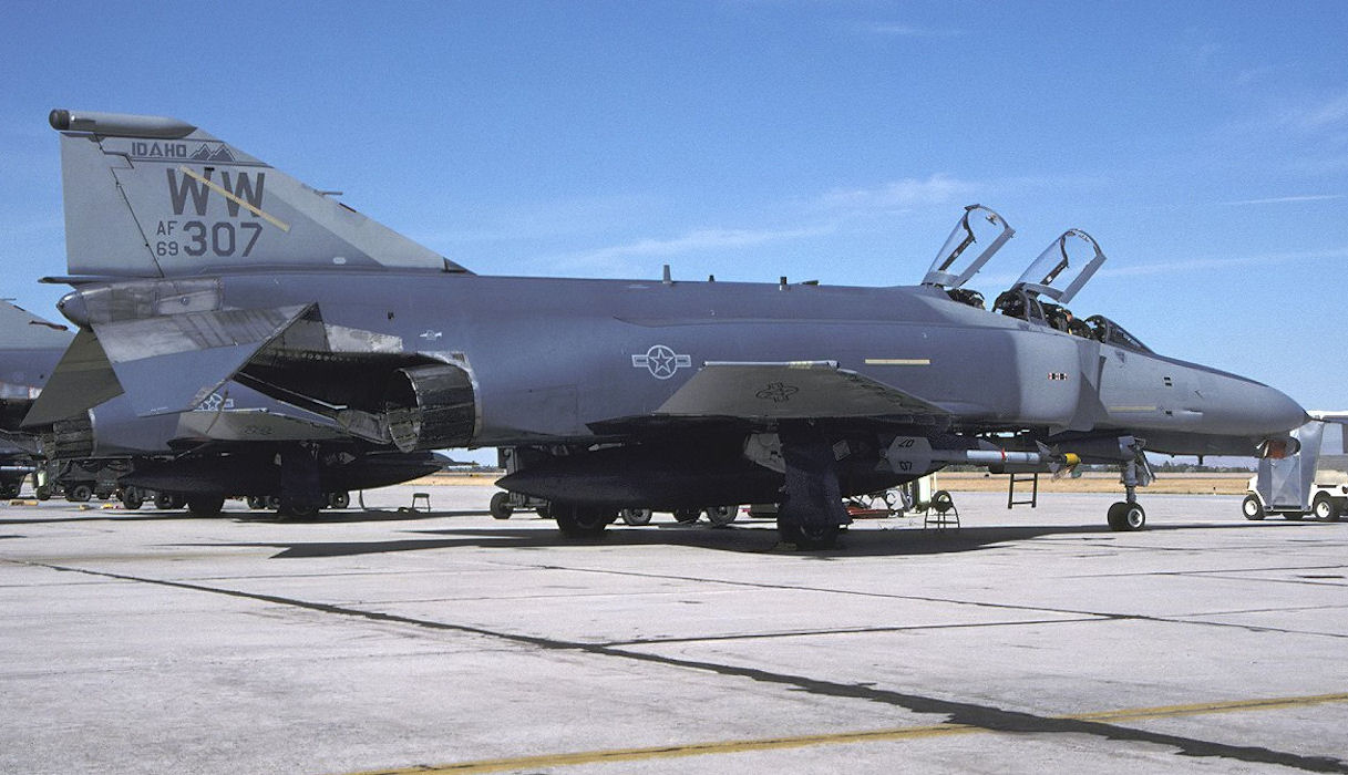 190th Fighter Squadron McDonnell Douglas F-4G-43-MC Phantom 69-307,about 1995. Initially an F-4E Upgraded to F-4G. Retired to AMARC as FP1010 1/4/1996. To Holloman AFB as QF-4G AF134 May 16, 1996. Expended as target drone Nov 6, 1997.